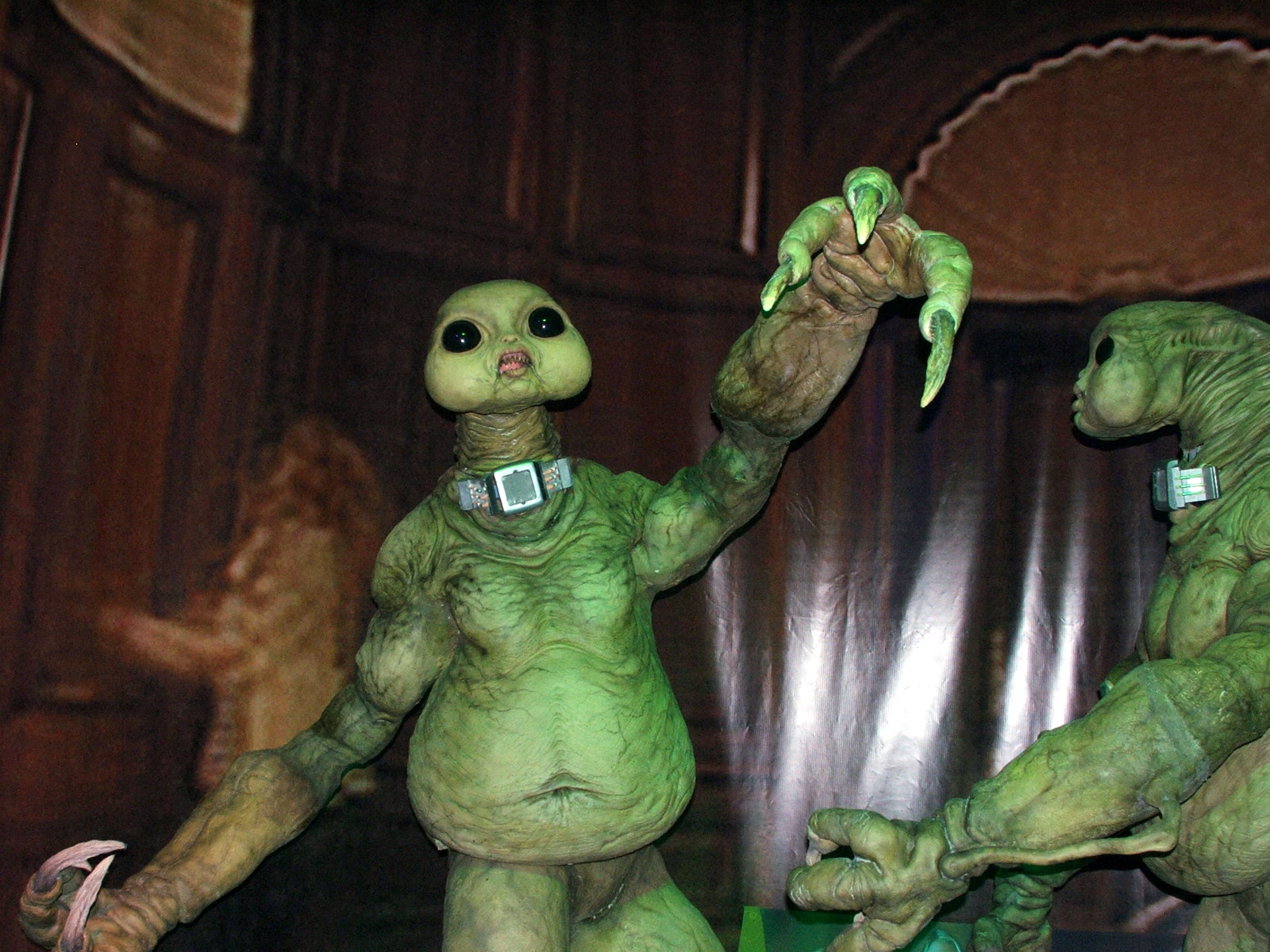 260506-051 Doctor Who Experience